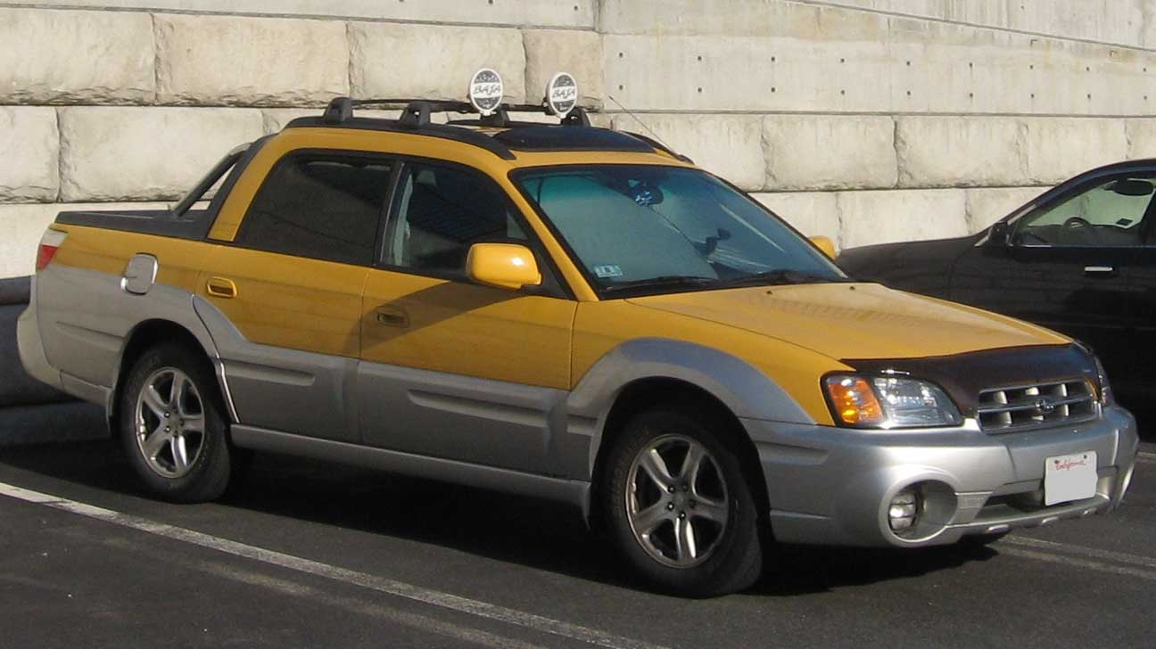 Subaru Baja photographed in Watertown, Massachusetts, USA.